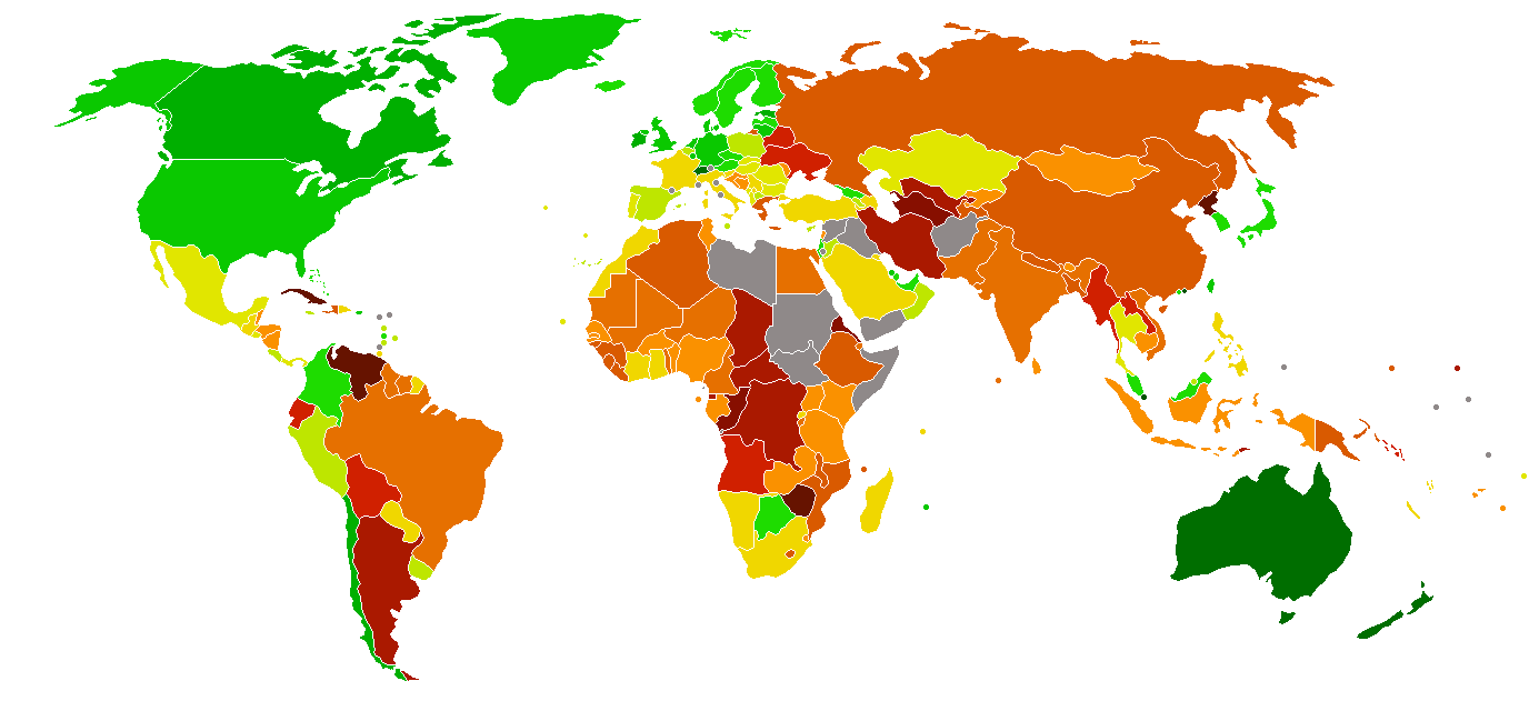 2016 Index of economic freedom Free: + 85.0 80.0-84.9 Mostly Free: 76.7-79.9 73.4-76.6 70.0-73.3 Moderately Free: 66.7-69.9 63.4-66.6 60.0-63.3 Mostly Unfree: 56.7-59.9 53.4-56.7 50.0-53.3 Repressed: 46.7-49.9 43.4-46.7 40.0-43.3 - 39.9